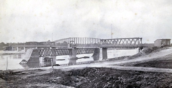 Title: No. 4. Railway Bridge over the Missouri River at Kansas City, Mo. Creator: Benecke, Robert, 1835-1903 Date: 1873 Place: Kansas City, Missouri (left) Harlem, Missouri (right) Part Of: //digitalcollections.smu.edu/cdm/search/collection/wes/searchterm/Vault Ag1982.0086/mode/exact/ Physical Description: 1 photographic print: albumen; 19.25 x 25 cm. on 20 x 27.5 cm. mount File: vault_ag1982_0086_04_opt.jpg Rights: Please cite DeGolyer Library, Southern Methodist University when using this file. A high-resolution version of this file may be obtained for a fee. For details see the web page. For other information, . For more information, View U.S. West: Photographs, Manuscripts, and Imprints